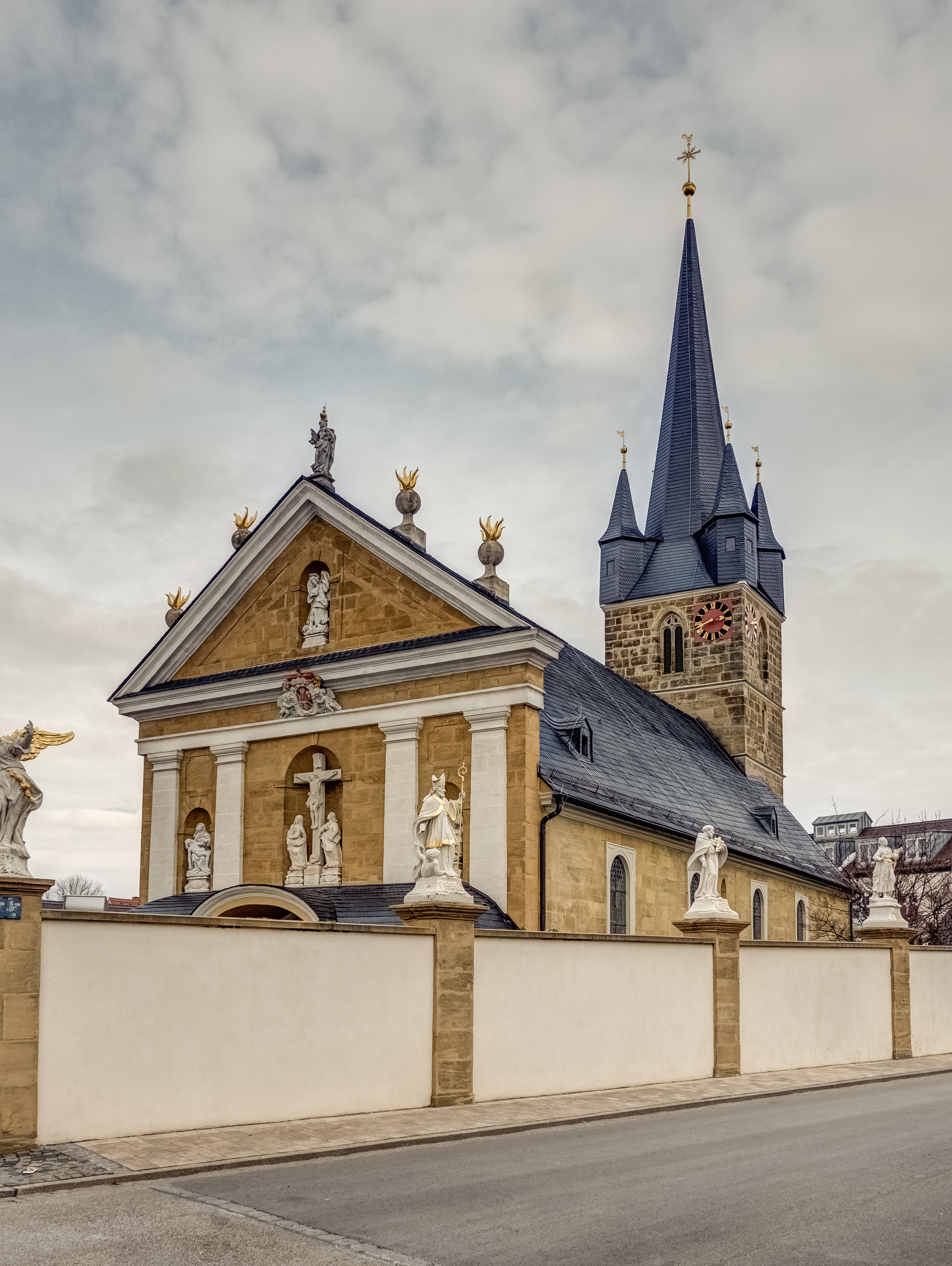 Parish of the Assumption in Memmelsdorf